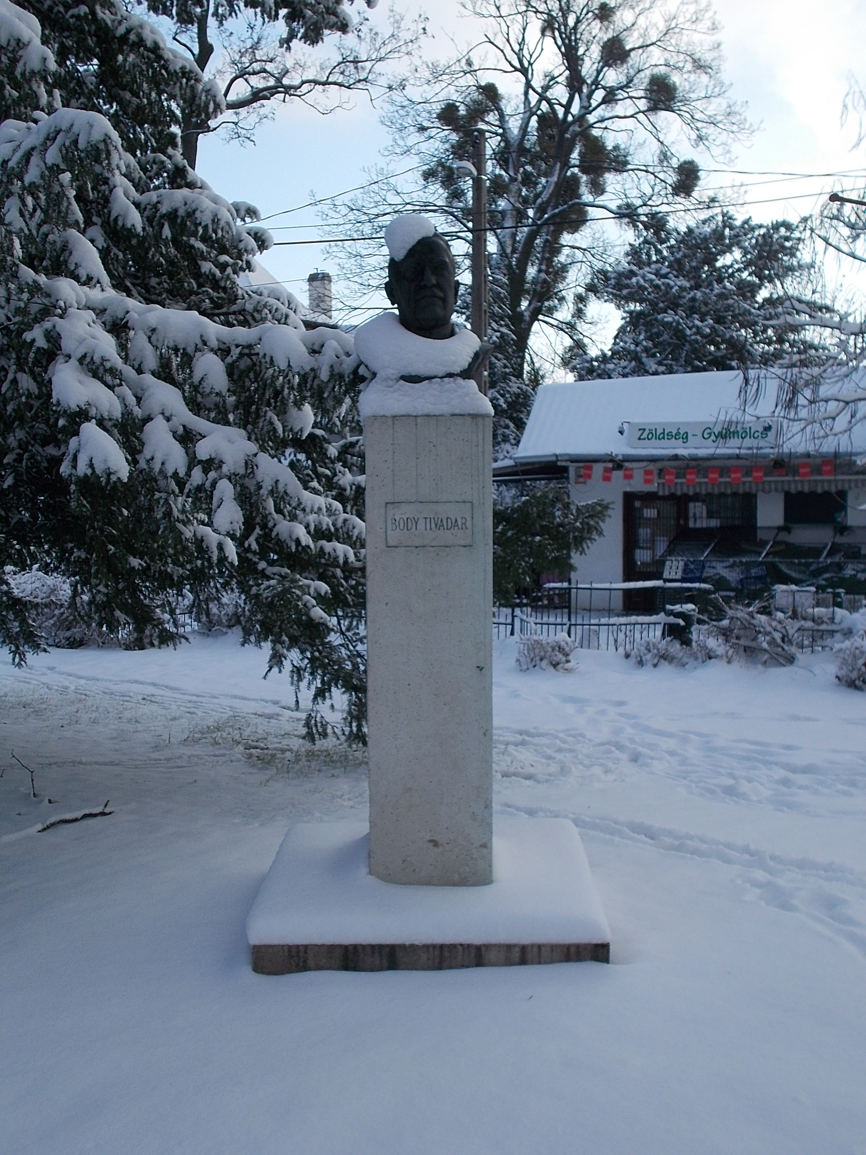 Bust of Tivadar Body by Dezső Lányi (1936 bronze). Tivadar Body (Budapest, 1868. jún. 2. – Budapest, 1934. jún. 5.) lawyer, politician, mayor of Budapest between 1918-1920 [1]. - Eötvös József park, Svábhegy, 12th district of Budapest.